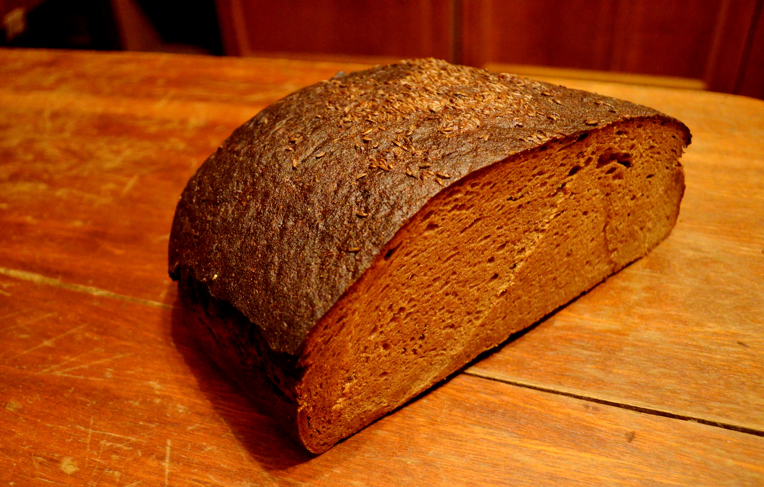 Lithuanian black bread with cumin